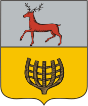 Vasilsursk (Nizhny Novgorod oblast), coat of arms (1781)